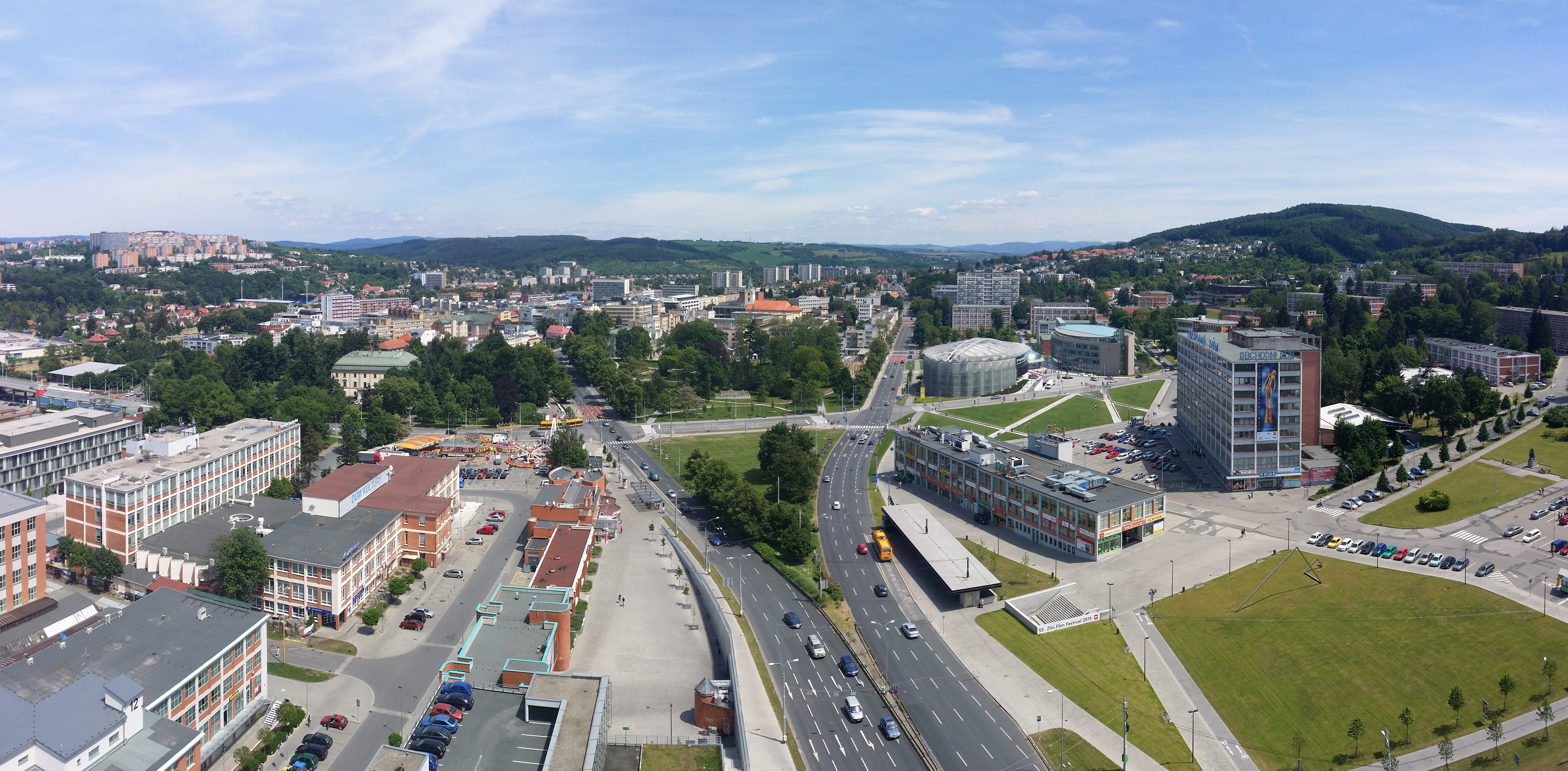 Zlín, Czech Republic